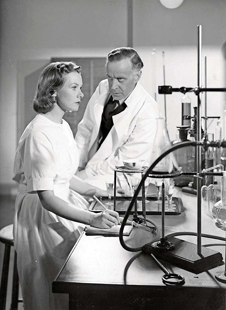 Sonja Wigert & Anders Henrikson in Fallet Ingegerd Bremssen - publicity still